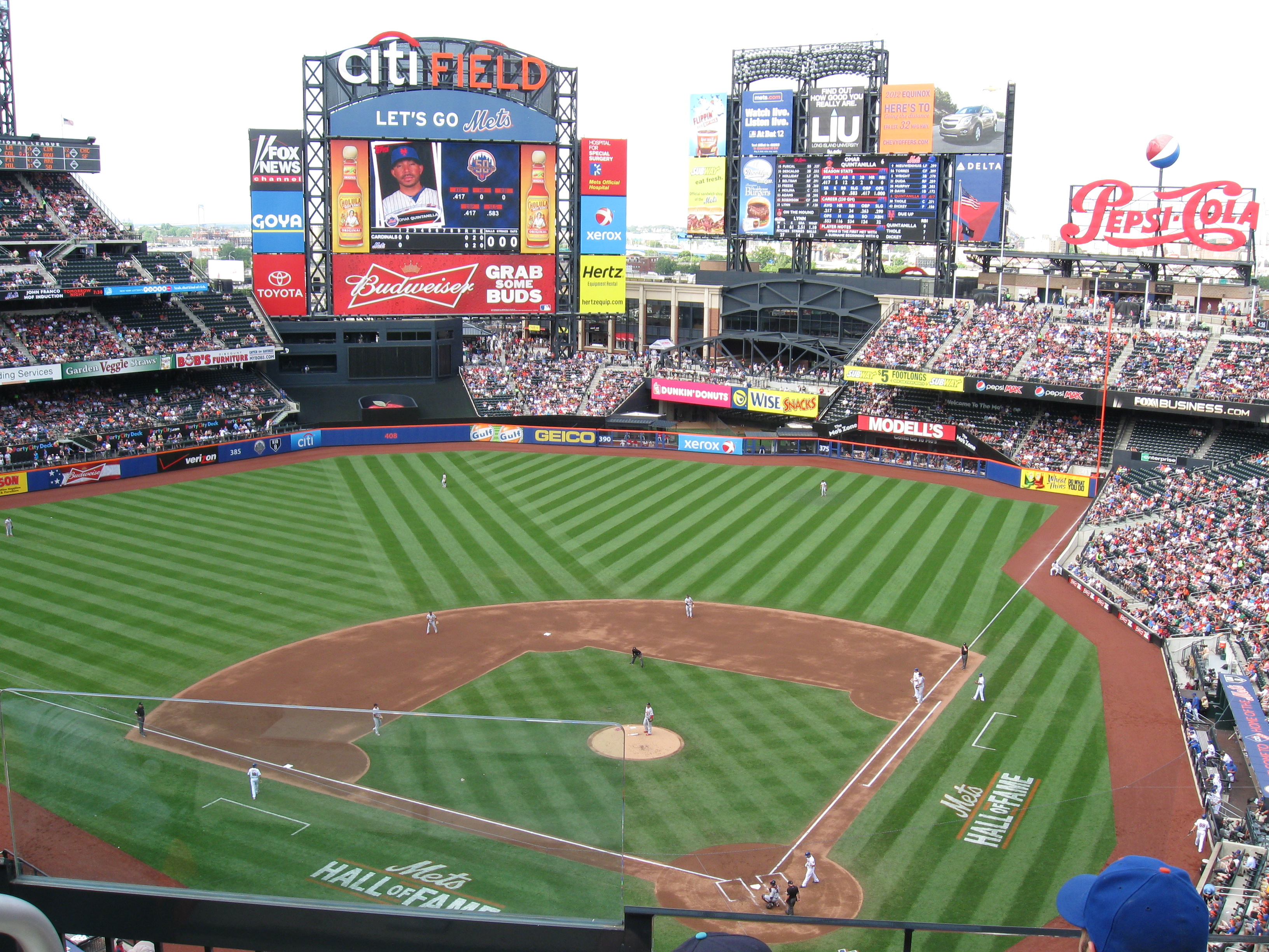 A Major League Baseball game between the New York Mets and the St. Louis Cardinals at Citi Field, June 2, 2012.